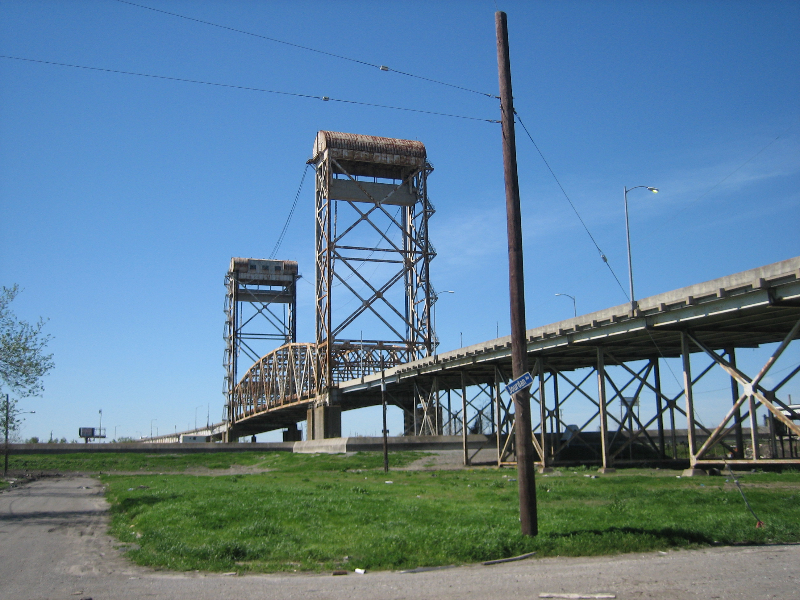 New Orleans: Claiborne Avenue Bridge from Lower 9th side